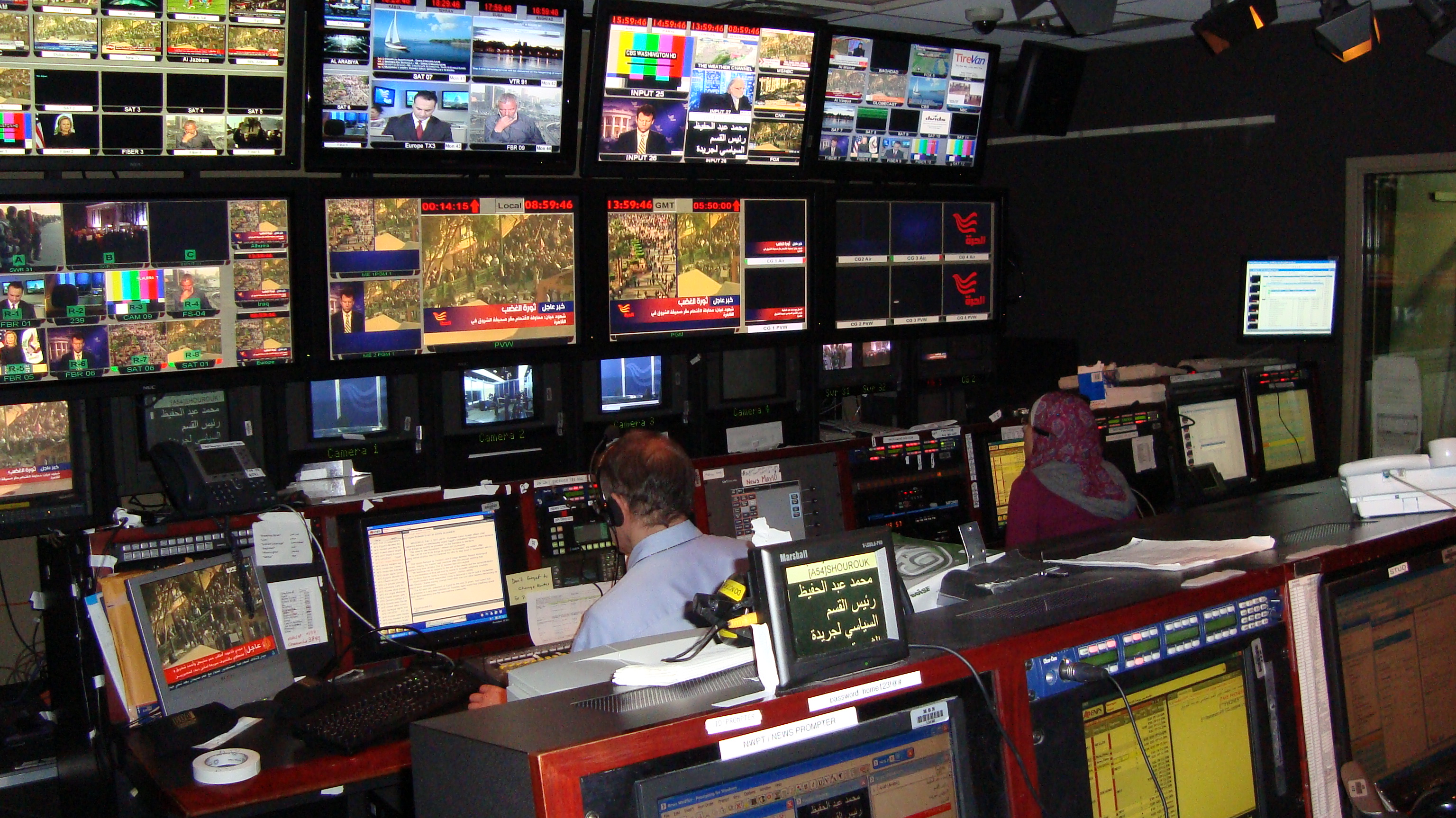 Control room of Arabic-language satellite TV channel Alhurra, June 2008